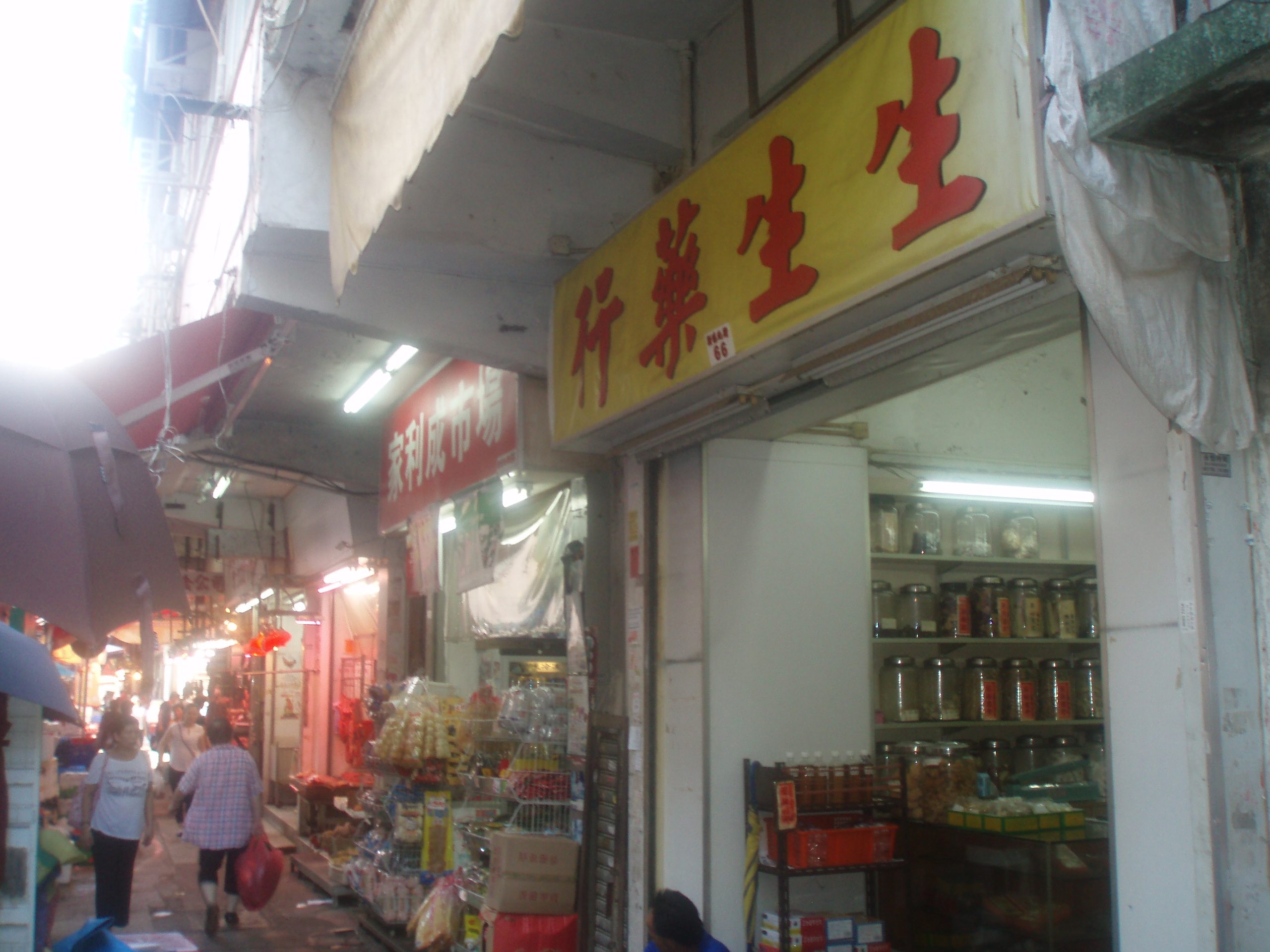 66-76 Reclamation Street, Yau Ma Tei, Kowloon, Hong Kong